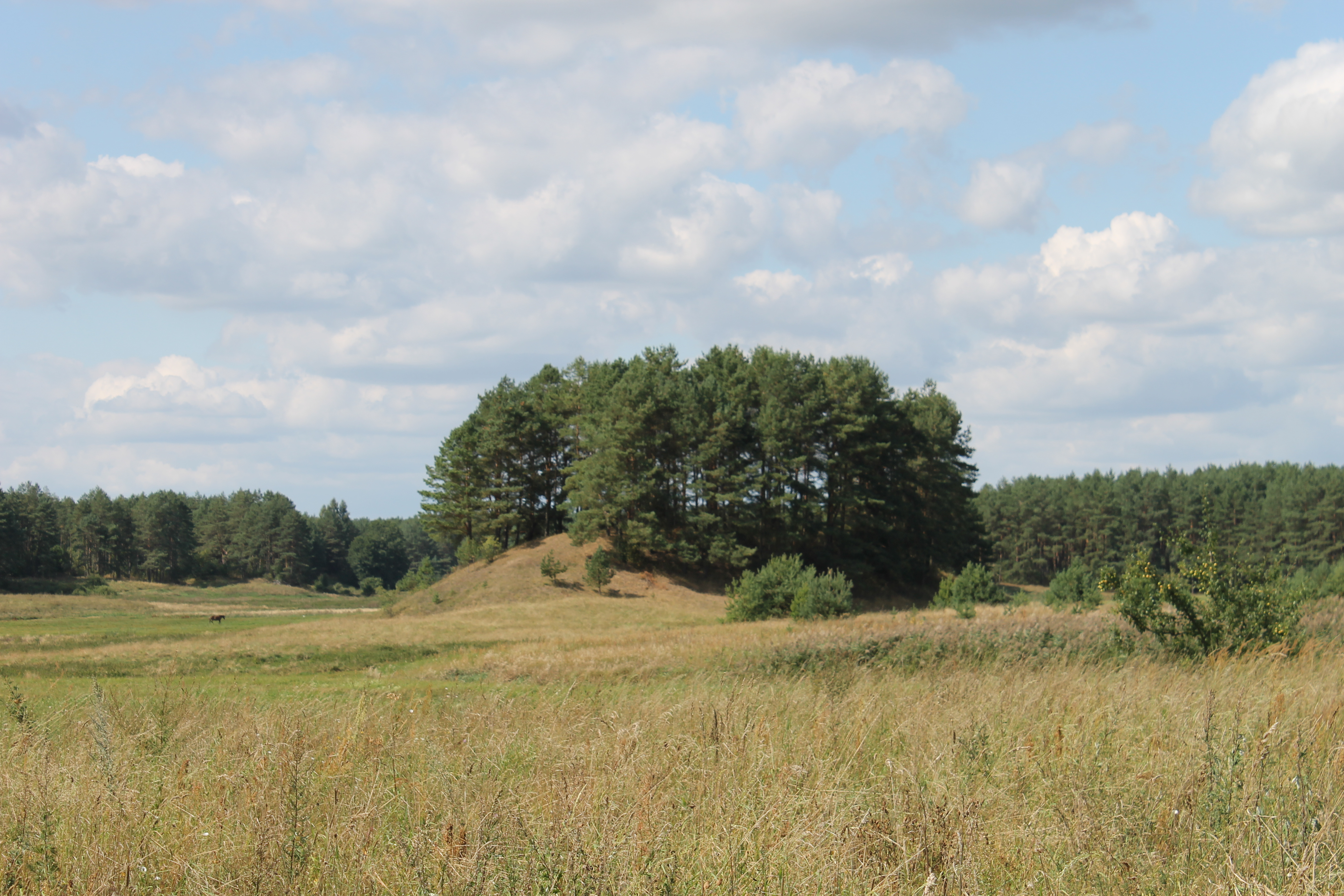 Černiauskai Hillfort, Druskininkai municipality, LithuaniaLietuvių: Černiauskų piliakalnis, Druskininkų savivaldybė, Lietuva